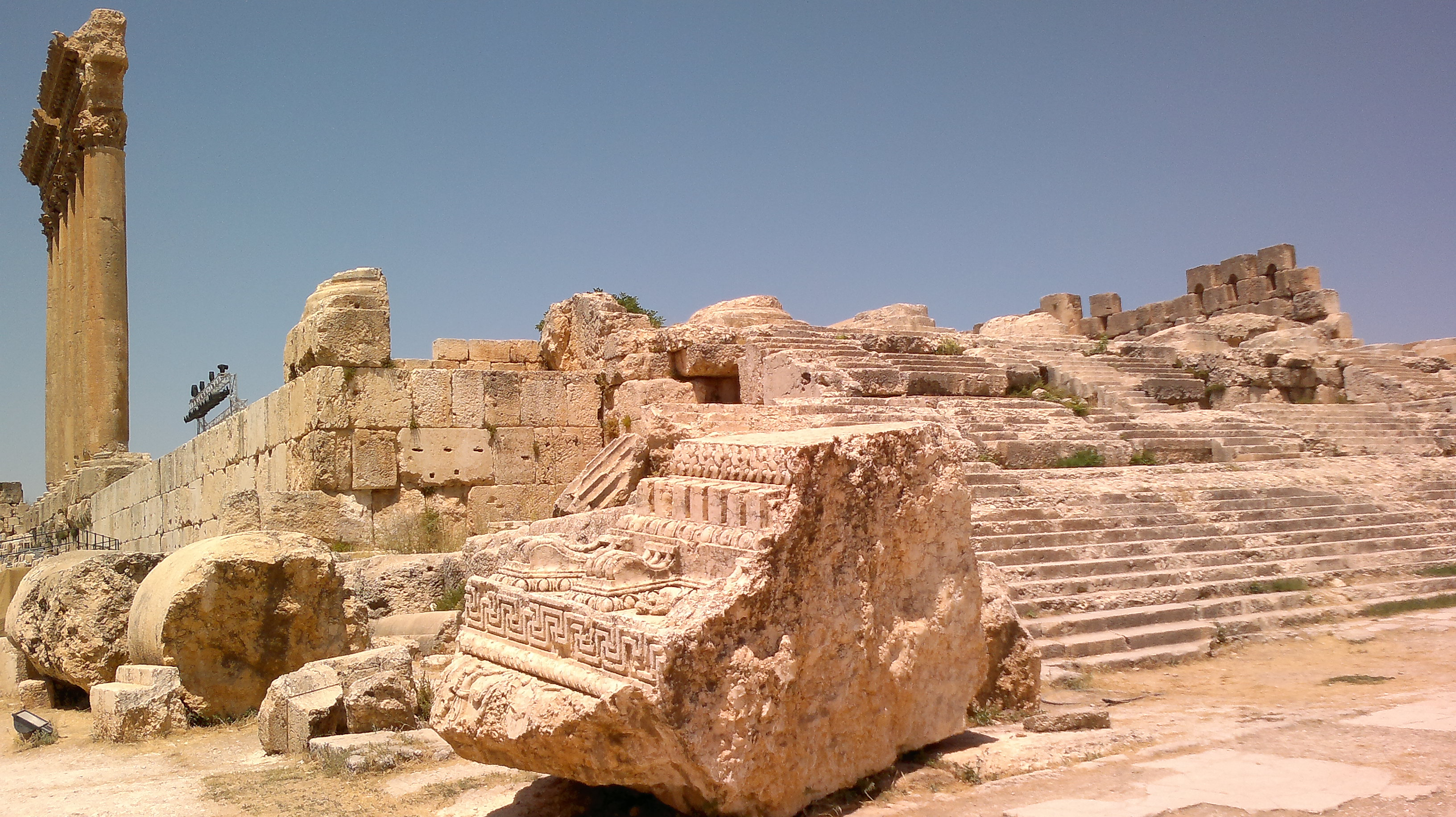 Baalbek ruins, Lebanon.